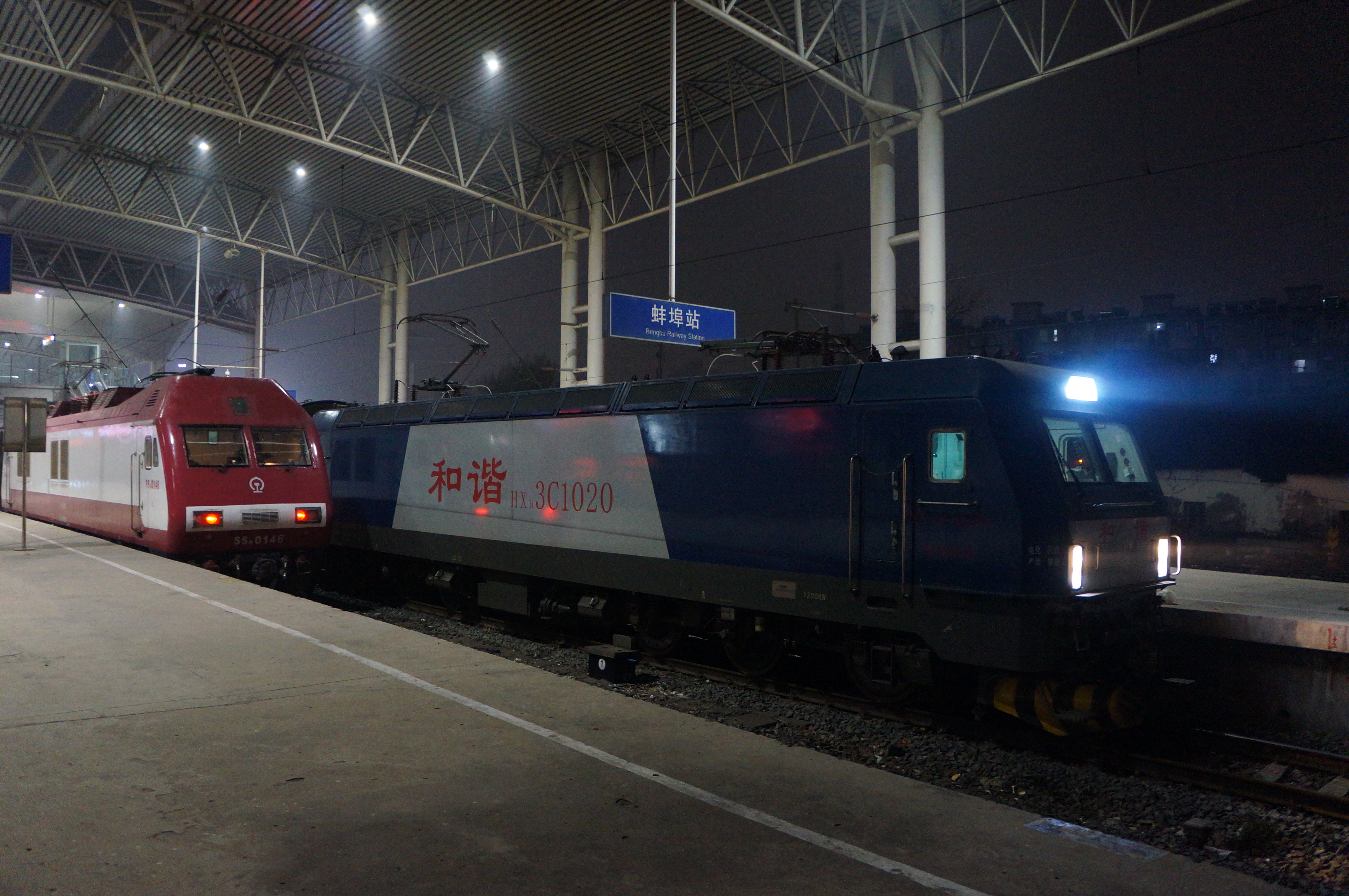 201812 HXD3C-1020 hauls K152 from Shanghai to Zhengzhou at Bengbu Station